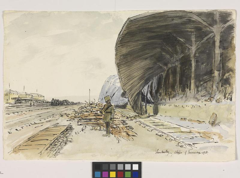 Aleppo Station - the station was burnt and the stores rendered valueless. Armoured motor-cars are in the buildings to the left. image: two railway tracks run away into the distance, with stacked rails, sleepers and debris in between them. A Sikh Indian Army infantryman stands guard with his rifle shouldered in the middle foreground. To the right the corrugated iron roof over a platform has collapsed due to fire, obstructing the right hand track. In the distance on the left a train moves along another track, and another platform of the station is visible.